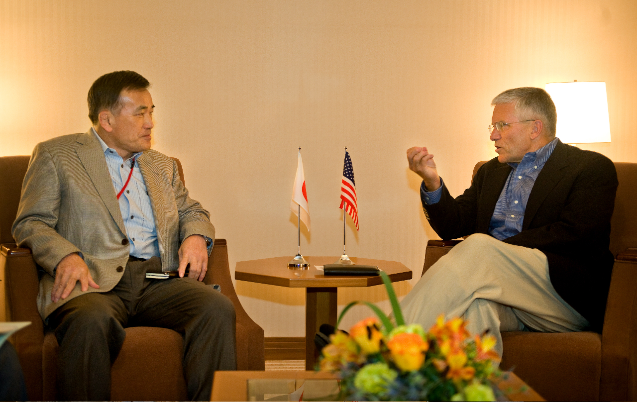 Yoshifumi Hibako, Chief of Staff of the Ground Self-Defense Force, talked with George W. Casey, Jr., Chief of Staff of the Army, during the 6th annual Pacific Chiefs Conference in Tokyo Metropolis on August 23, 2009.